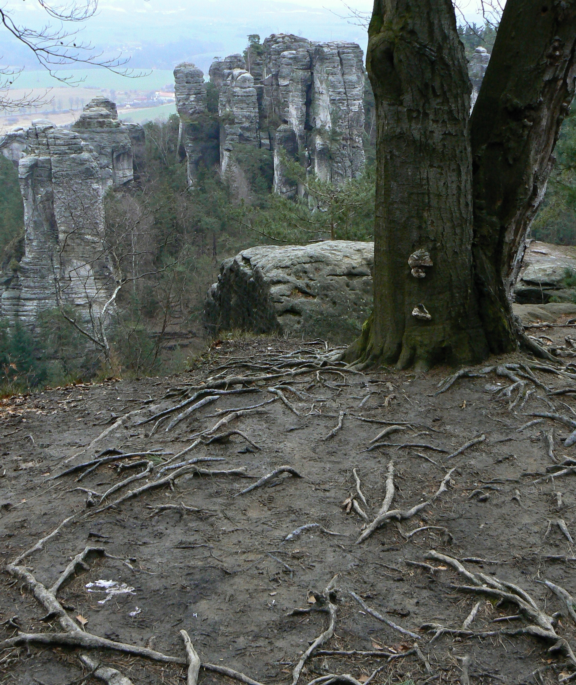 John´s look-out, Hrubá Skála Rock City, Bohemian Paradise (Czech Republic)